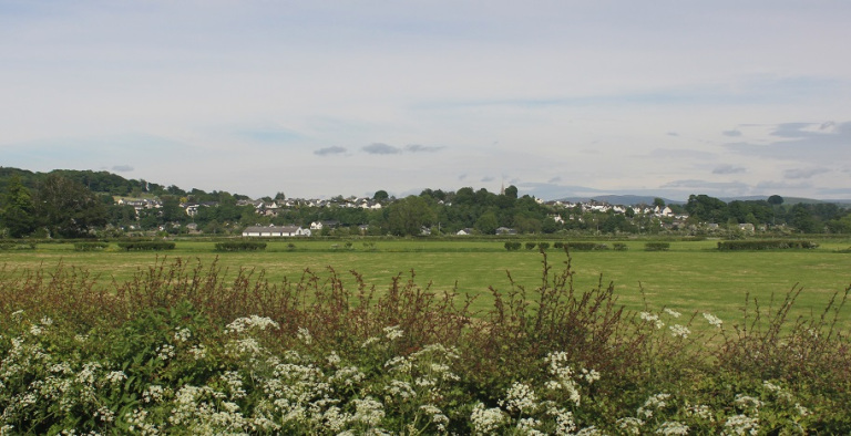 Levens is a small village in Cumbria, built along the side and top of a hill. The photo shows the village on the hillside beyond fields at the southern end of the Lyth Valley.